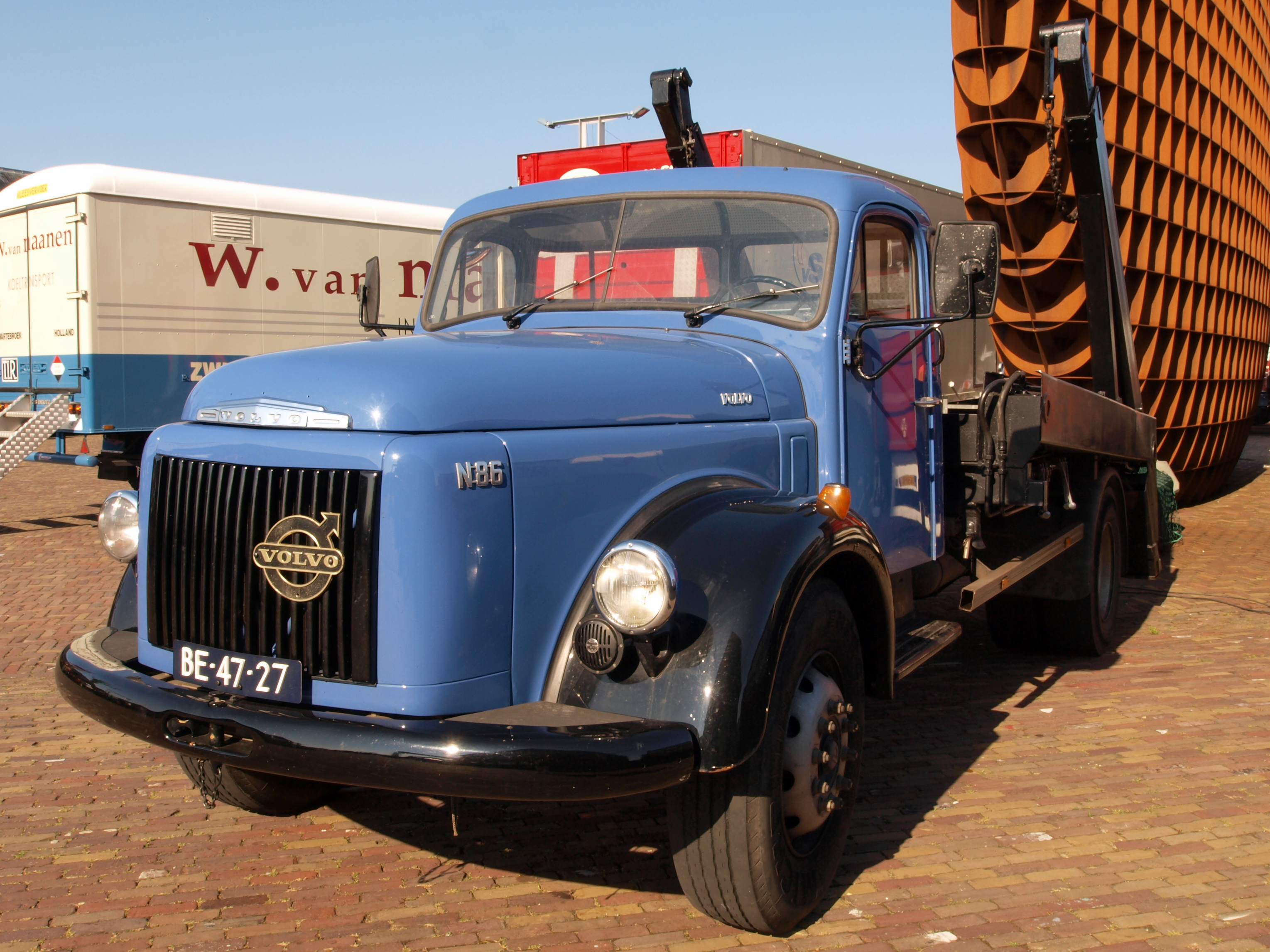 Photographed at Den Helder, The Netherlands. OLYMPUS DIGITAL CAMERA